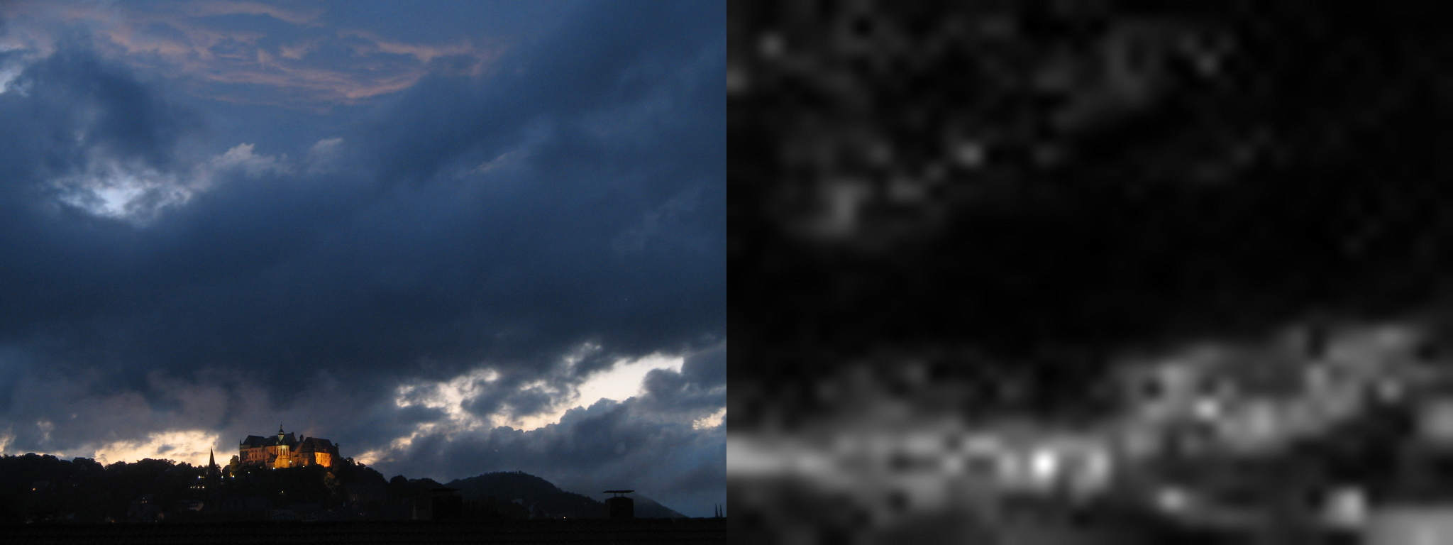 A view of the fort of Marburg (Germany) and the Saliency Map of the image using color, intensity and orientation. Color had a weight of 1.5 and the other maps had a weight of 1.